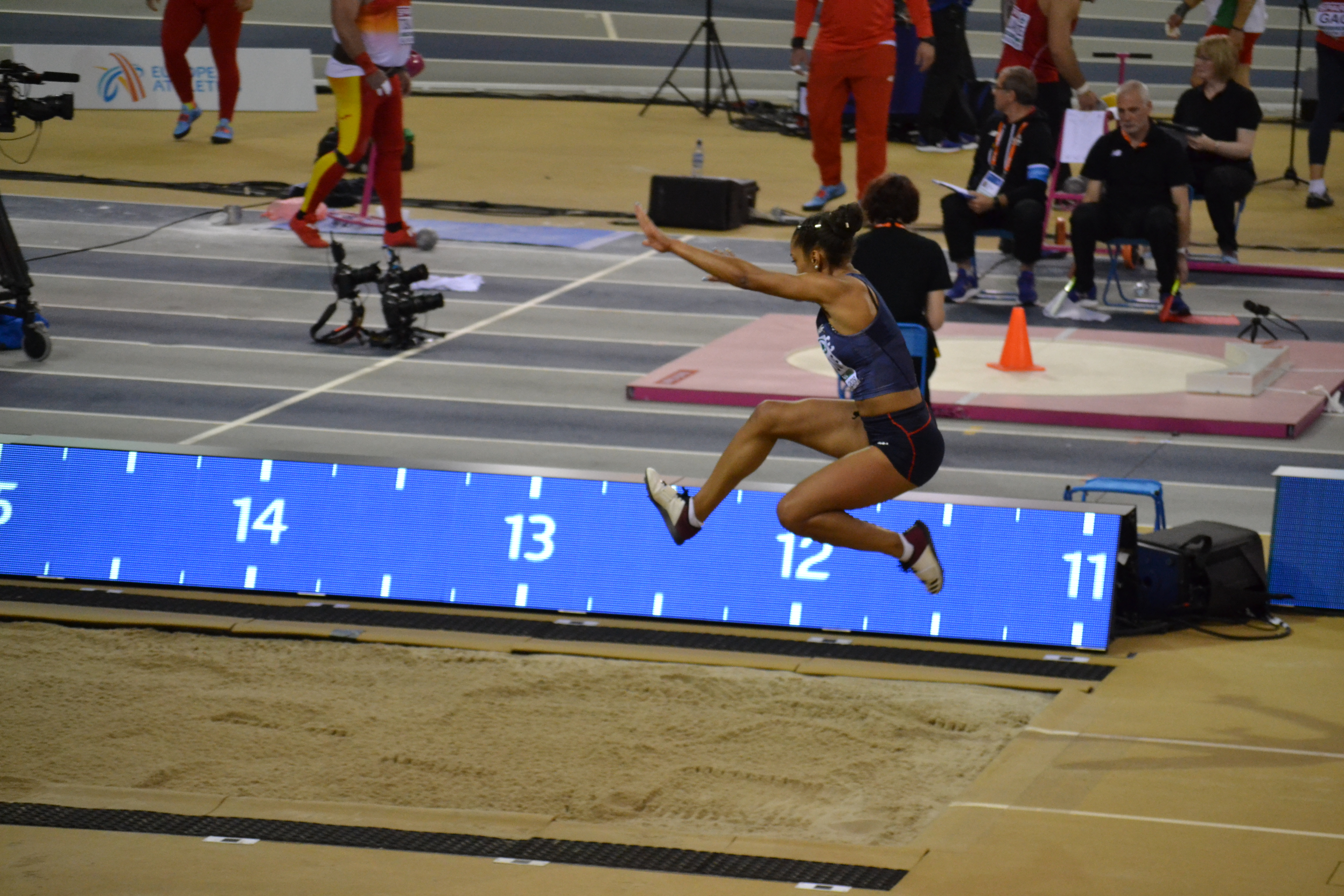 Womens Triple Jump